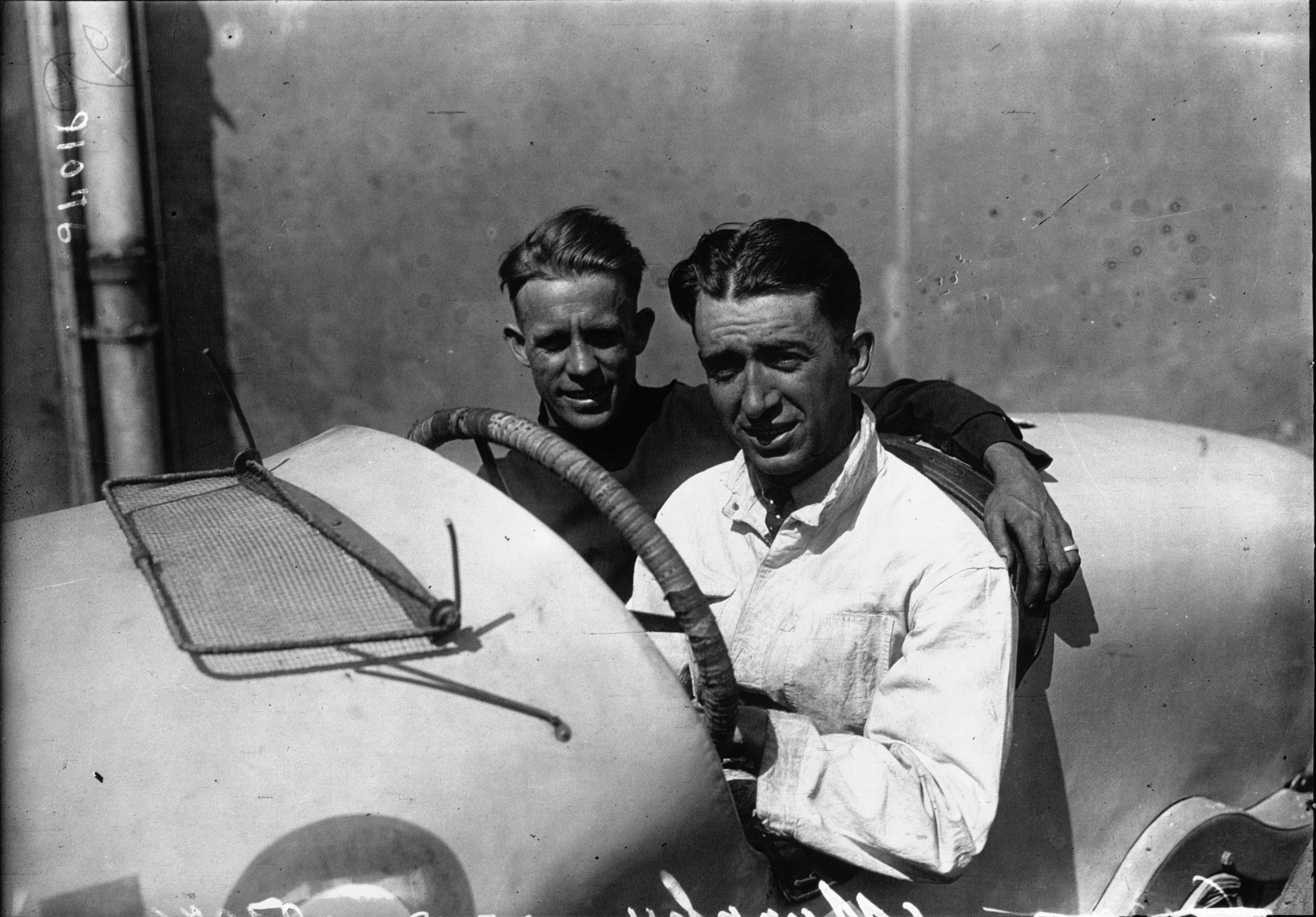 James Anthony Murphy at the 1921 French Grand Prix